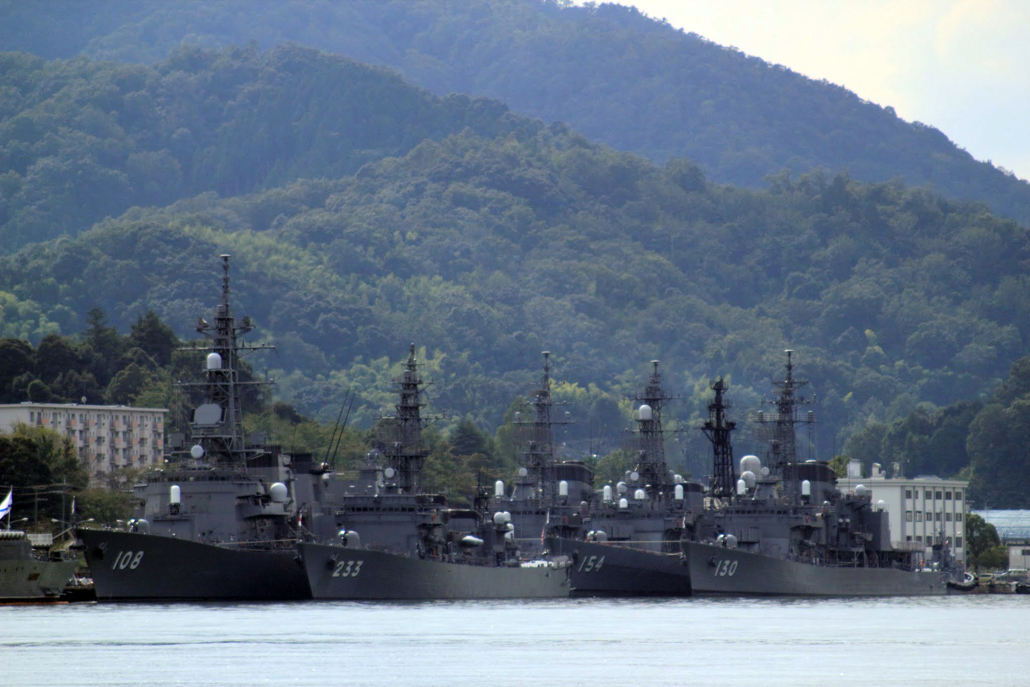 〔front from left〕 Akebono (DD-108), Chikuma (DE-233), 〔rear〕 unknown, Amagiri (DD-154), and Matsuyuki (DD-130) at Kitasui Pier, Maizuru. Canon EOS Kiss X4